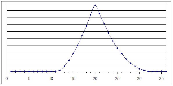 A distribution of ACT scores for high schoolers, made in 2005 by Micah Manary, free for public domain